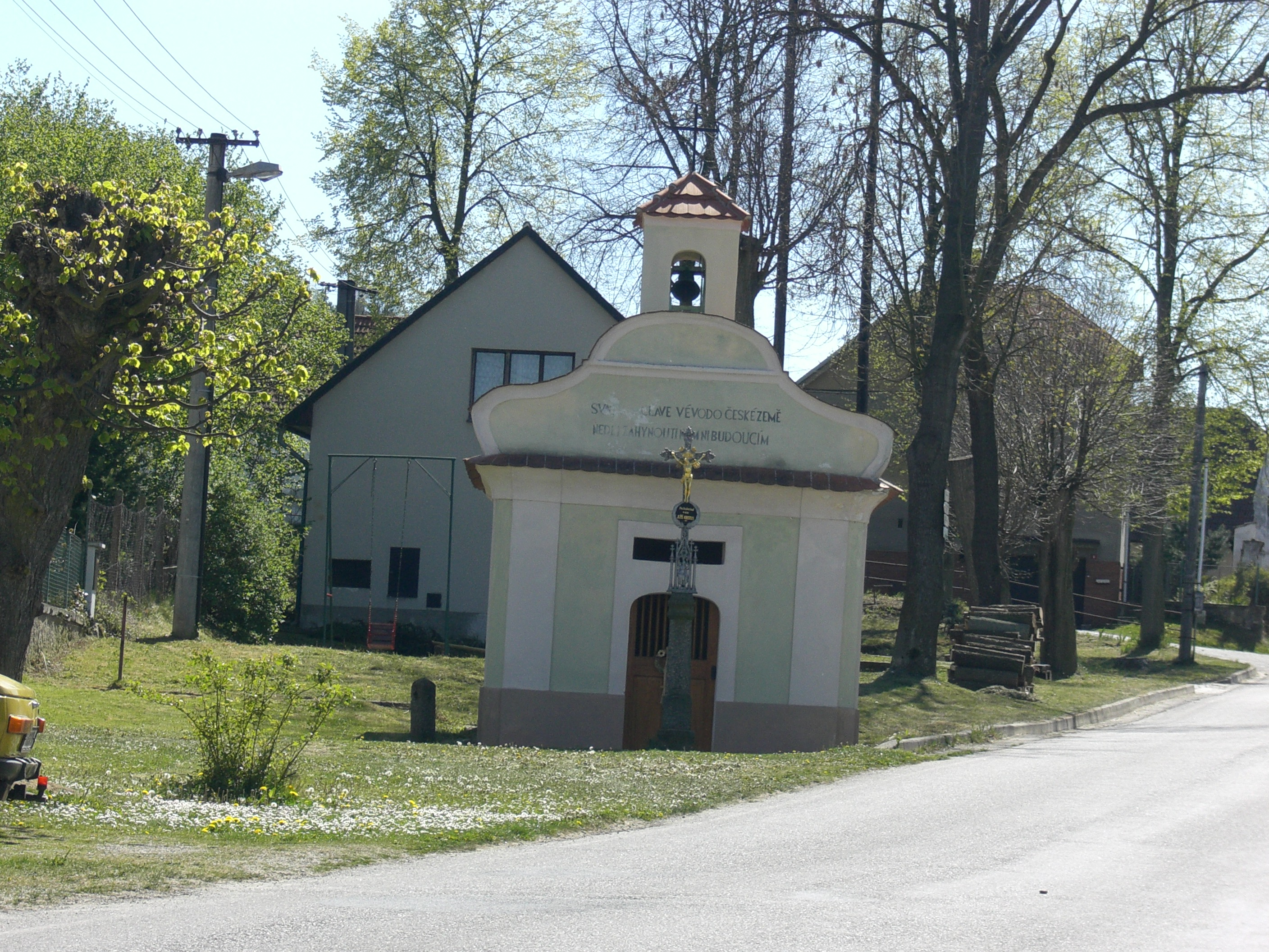 Vrcovice village in Písek district, Czech Republic.